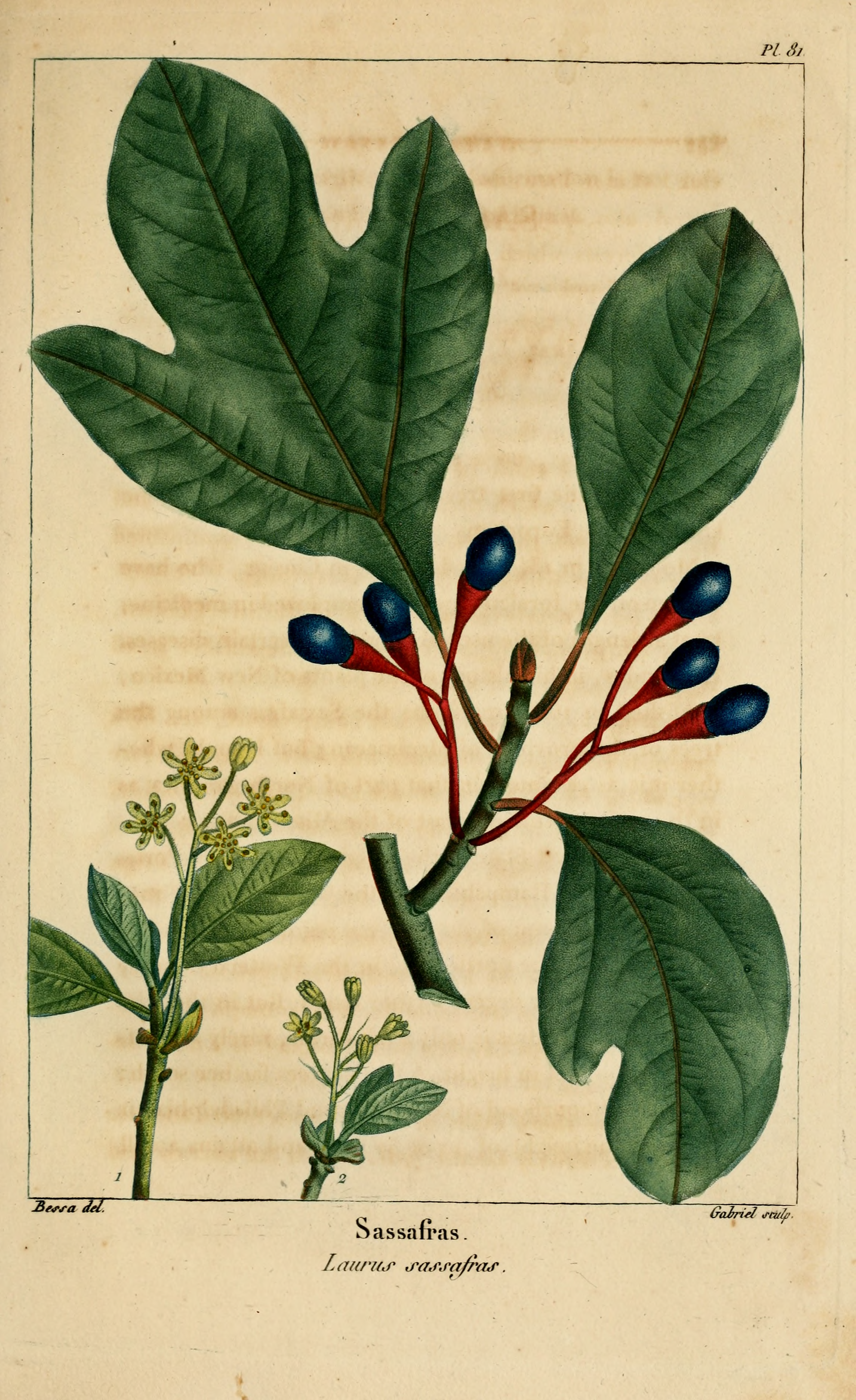 Plate from The North American Sylva